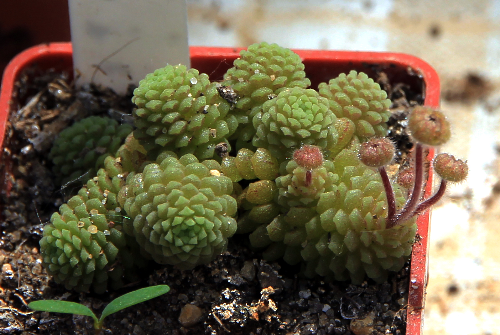 Succulent Monanthes polyphylla on Exhibition of Cactuses and succulets in the Botanical Gardens of Charles University, 28.05. - 15.06.2016 Prague, Czech Republic